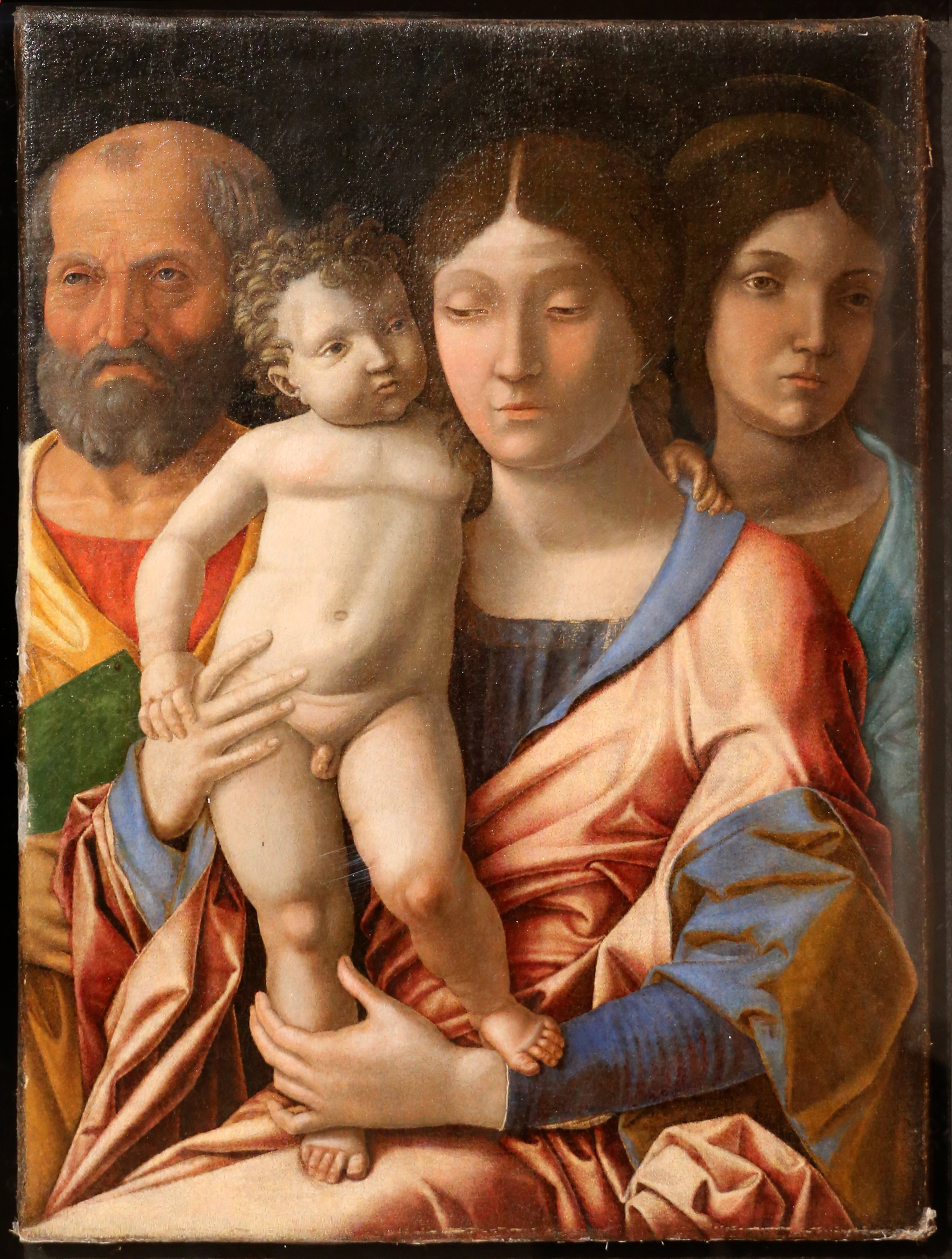 La Tutela Tricolore (2016 exhibition)